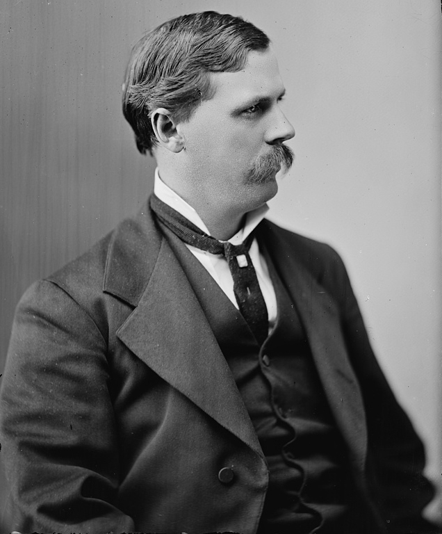 Kentucky Congressman Philip B. Thompson, Jr.